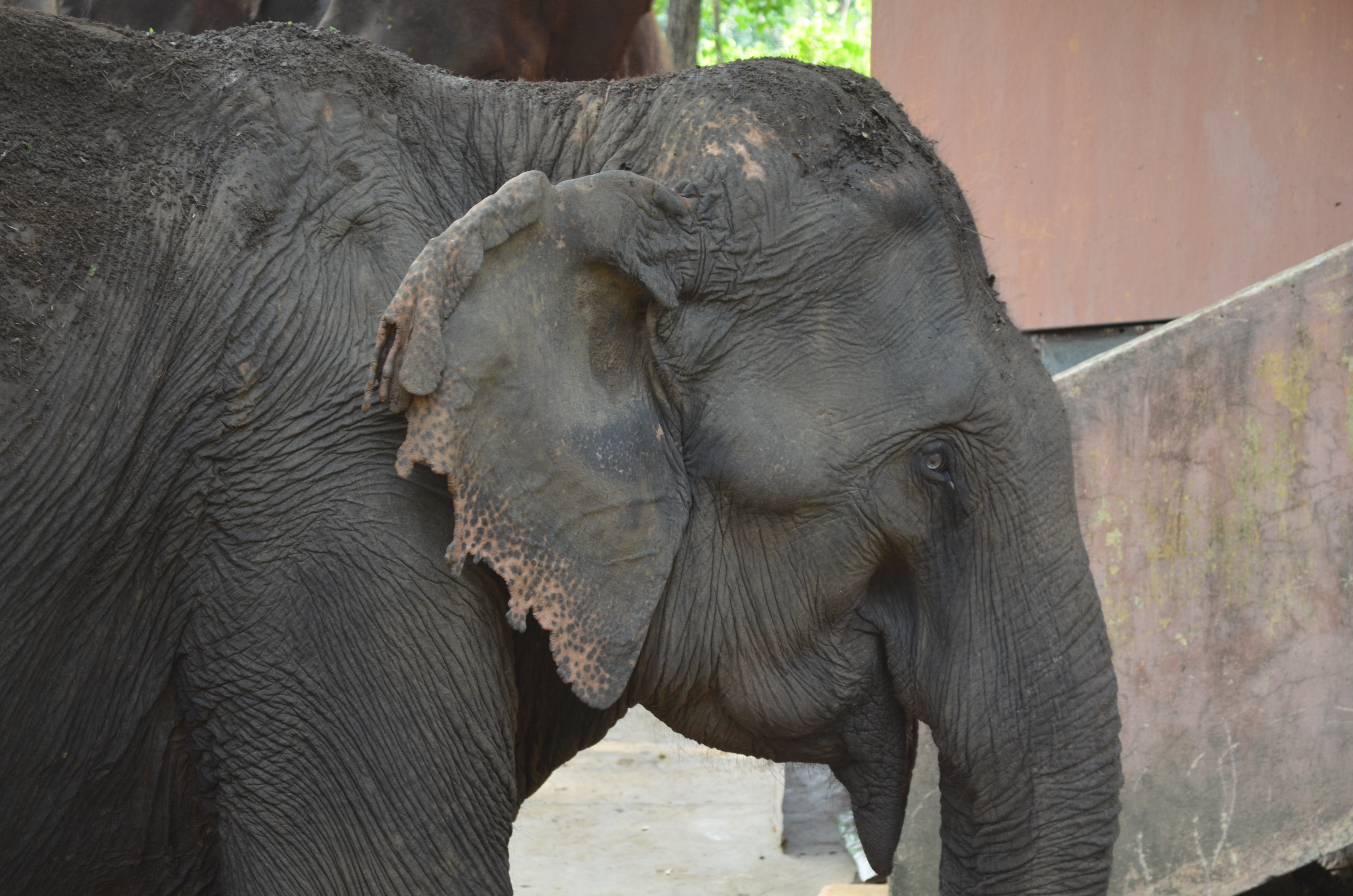 The image was clicked at Dalma wildlife sanctuary, Jharkhand, India.